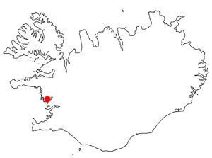 Borgarnes position in Iceland